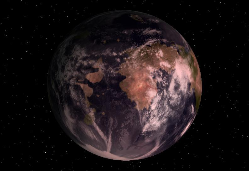 Fictional appareance of Gliese 581 c of Celestia.